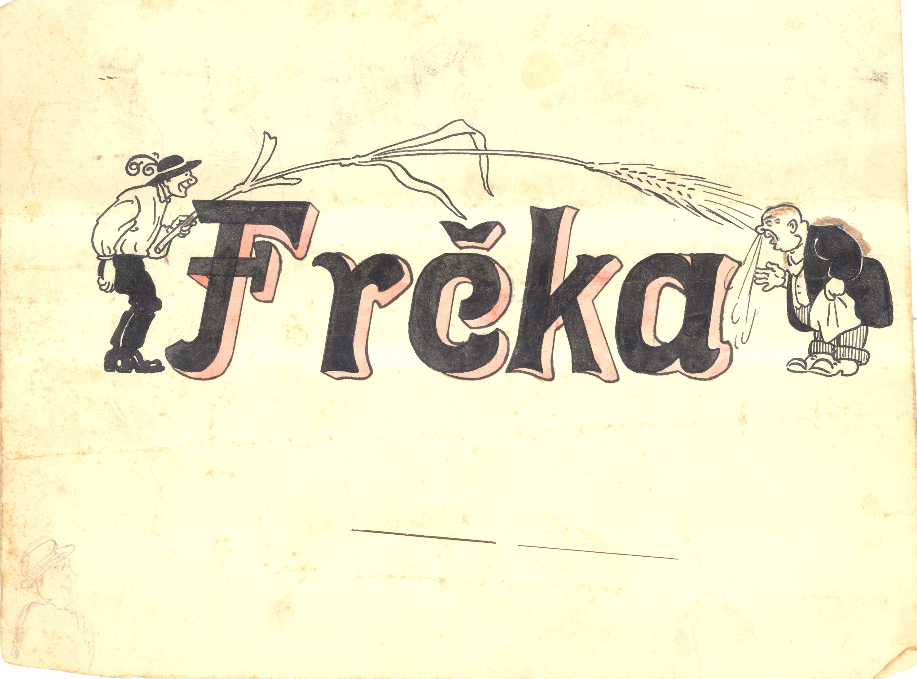 Hand-drawn logo of Vojvodinian Slovak humorous-satirical magazine Frčka. Inventory number 185. Srpski (latinica): Rukom crtan logo humorističkog časopisa vojvođanskih Slovaka Frčka, pre nego što je list štampan. Inventarski broj 185.